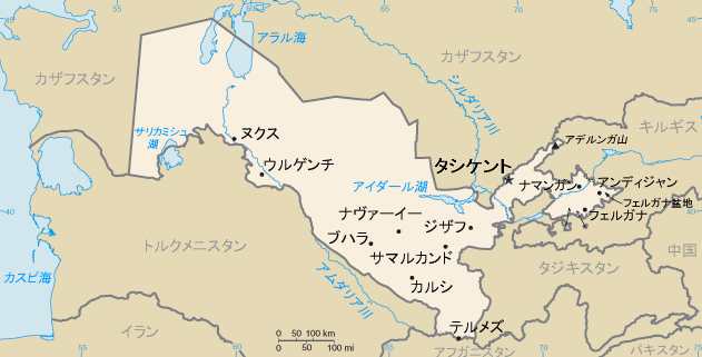 Map of Uzbekistan, in Japanese, from the United States Central Intelligence Agency's World Factbook